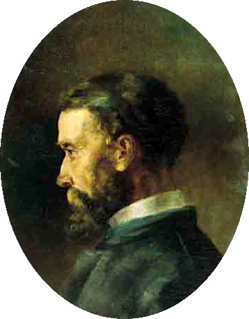 Adam Chmielowski by Aleksander Gierymski (1850-1901)